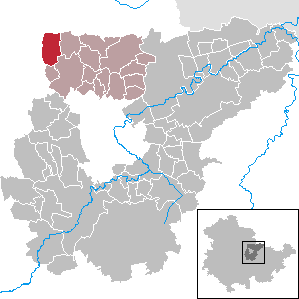 Vippachedelhausen in Thuringia - District Weimarer Land